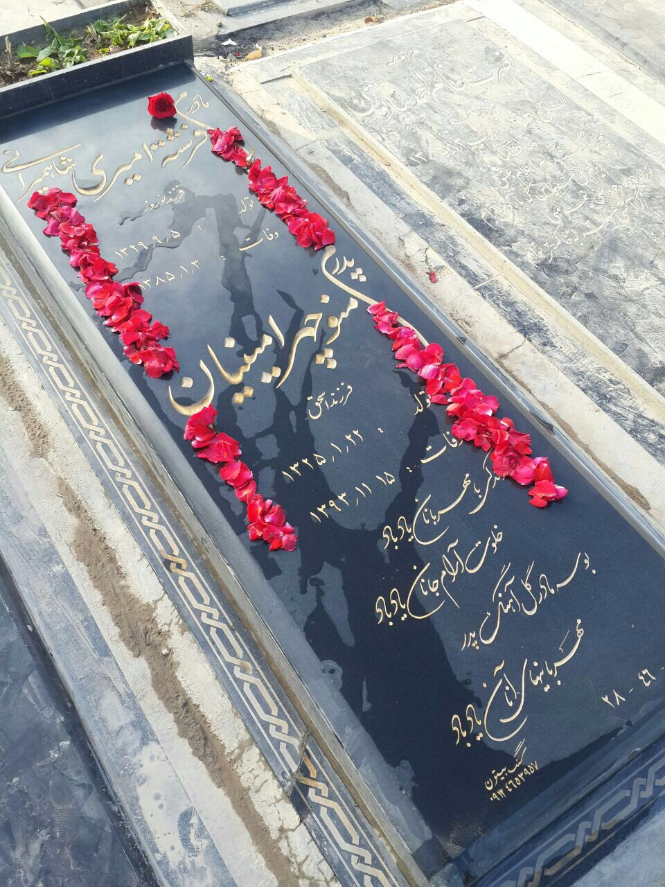 سنگ مزار منوچهر امینیان